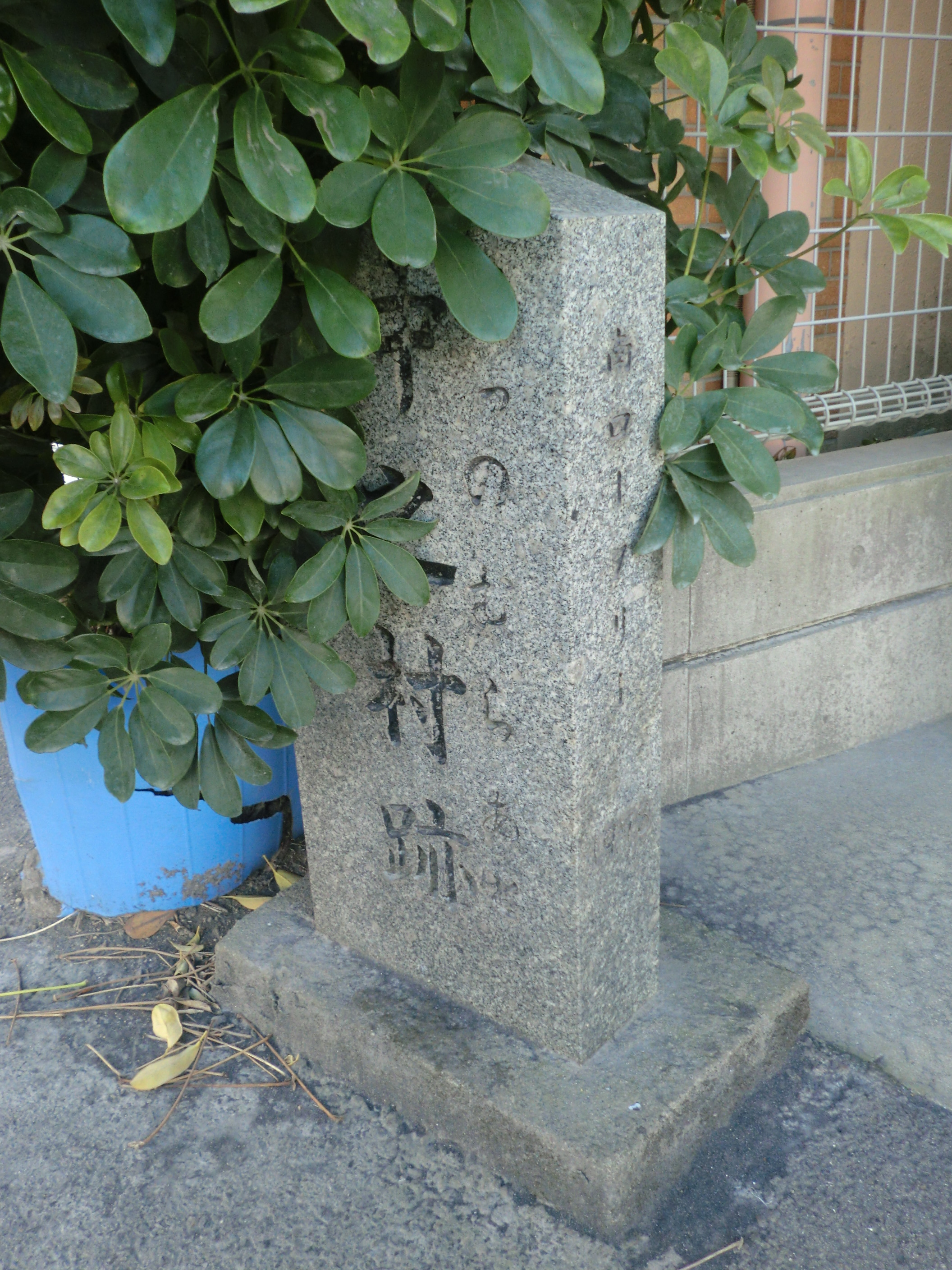 Stele of the site of Okinomura Yukaku in Kagoshima (former Shioya village), Kagoshima,Japan.